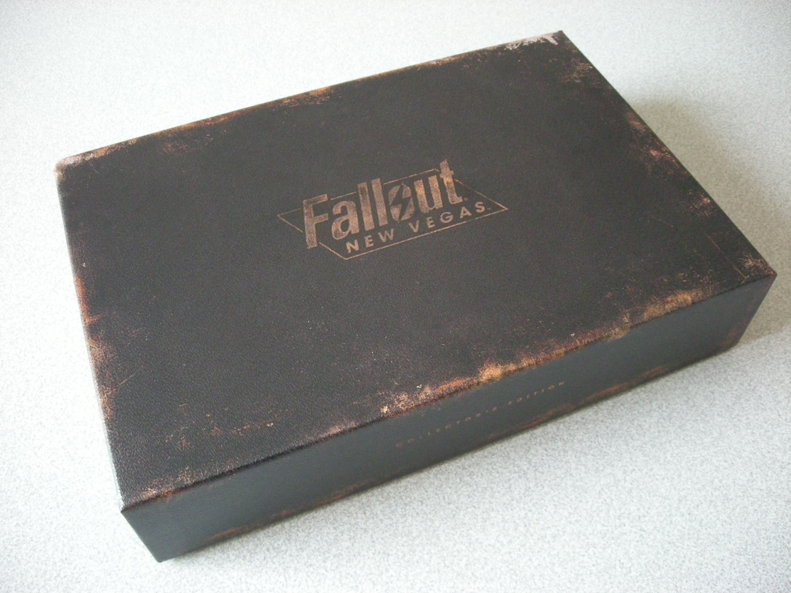 Fallout: New Vegas - Collector's Edition box.